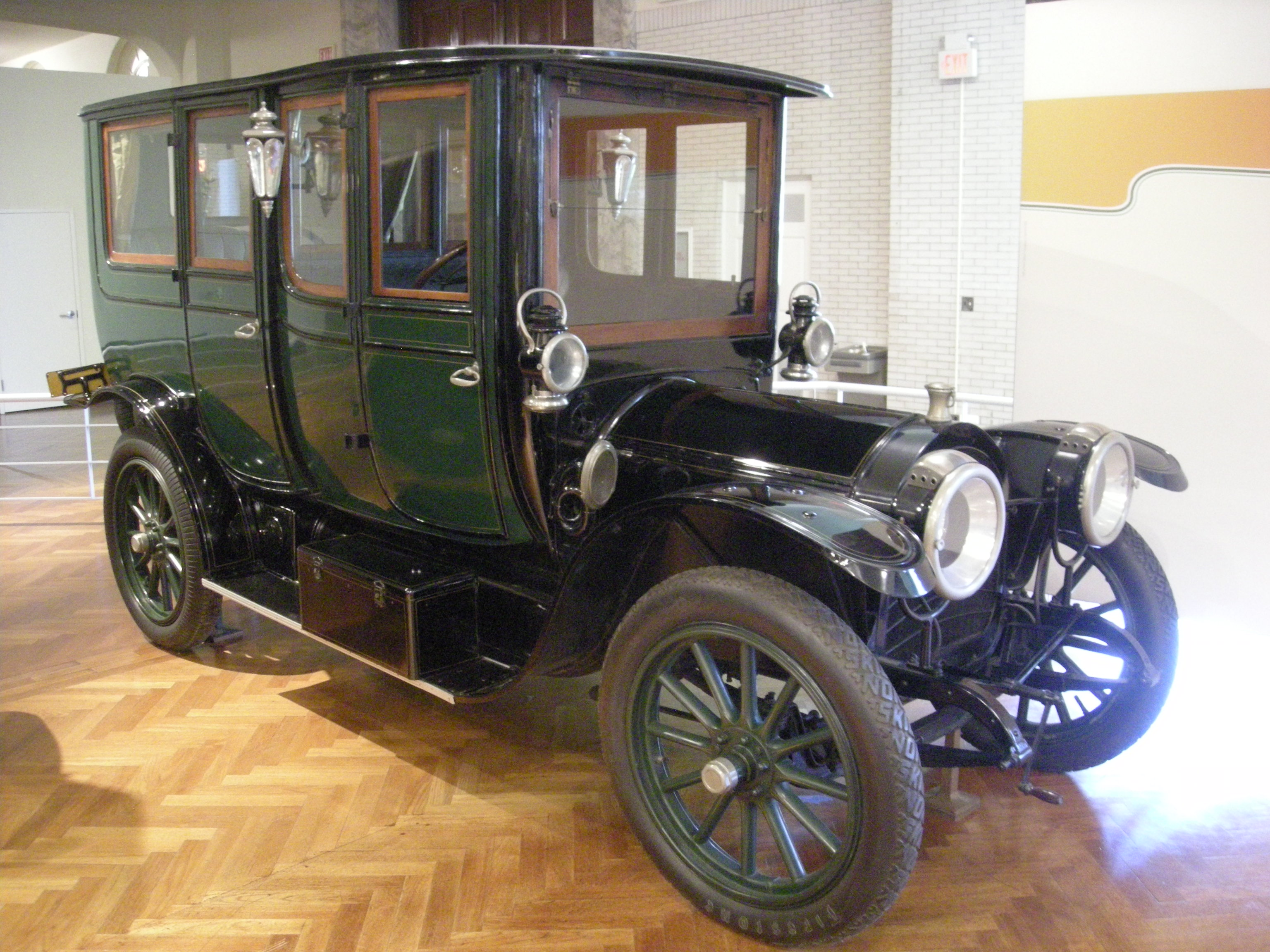 A 1912 Rambler Knickerbocker on display at the Henry Ford Museum in Dearborn, Michigan (United States).